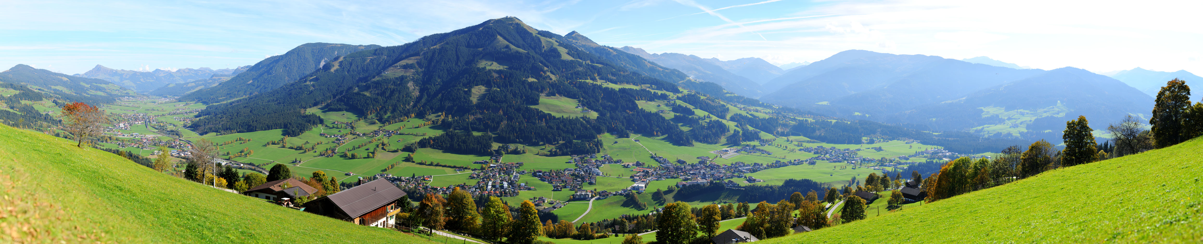 View from Salvenberg into the Brixental. Full Resolution image (291.301x59.078) is available at